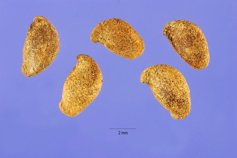 Amelanchier canadensis (L.) Medik. - Canadian serviceberry